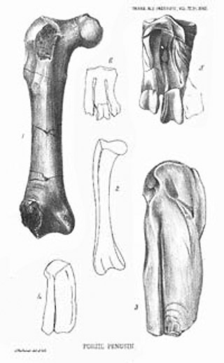 Illustrations of penguin bones produced for James Hector's 1872 article on fossil penguins. This work is in the public domain in its country of origin and other countries and areas where the copyright term is the author's life plus 70 years or less. You must also include a United States public domain tag to indicate why this work is in the public domain in the United States. Note that a few countries have copyright terms longer than 70 years: Mexico has 100 years, Jamaica has 95 years, Colombia has 80 years, and Guatemala and Samoa have 75 years. This image may not be in the public domain in these countries, which moreover do not implement the rule of the shorter term. Côte d'Ivoire has a general copyright term of 99 years and Honduras has 75 years, but they do implement the rule of the shorter term. Copyright may extend on works created by French who died for France in World War II (more information), Russians who served in the Eastern Front of World War II (known as the Great Patriotic War in Russia) and posthumously rehabilitated victims of Soviet repressions (more information). This file has been identified as being free of known restrictions under copyright law, including all related and neighboring rights.